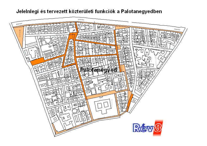 Road plans